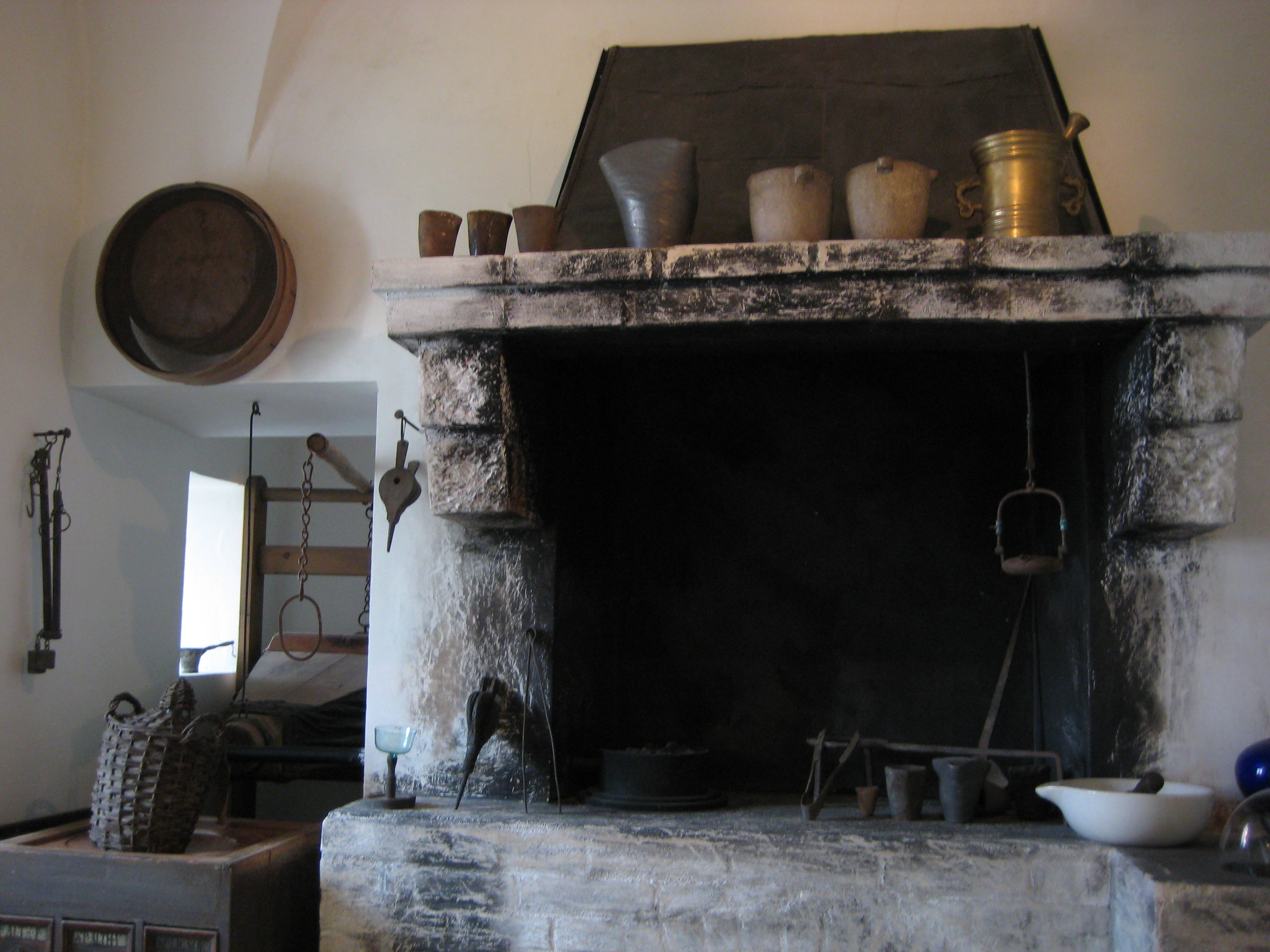 Museum in Veste Oberhaus, Passau, historical pharmacy